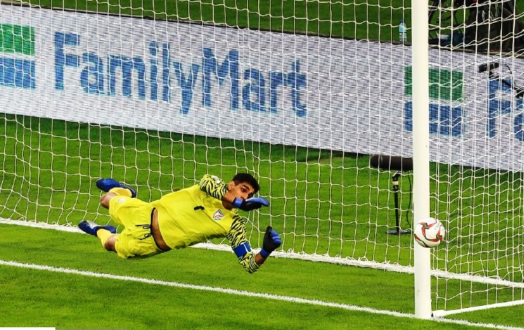 Gurpreet Singh Sandhu saving a shot while playing against Thailand at 2019 AFC Asian Cup